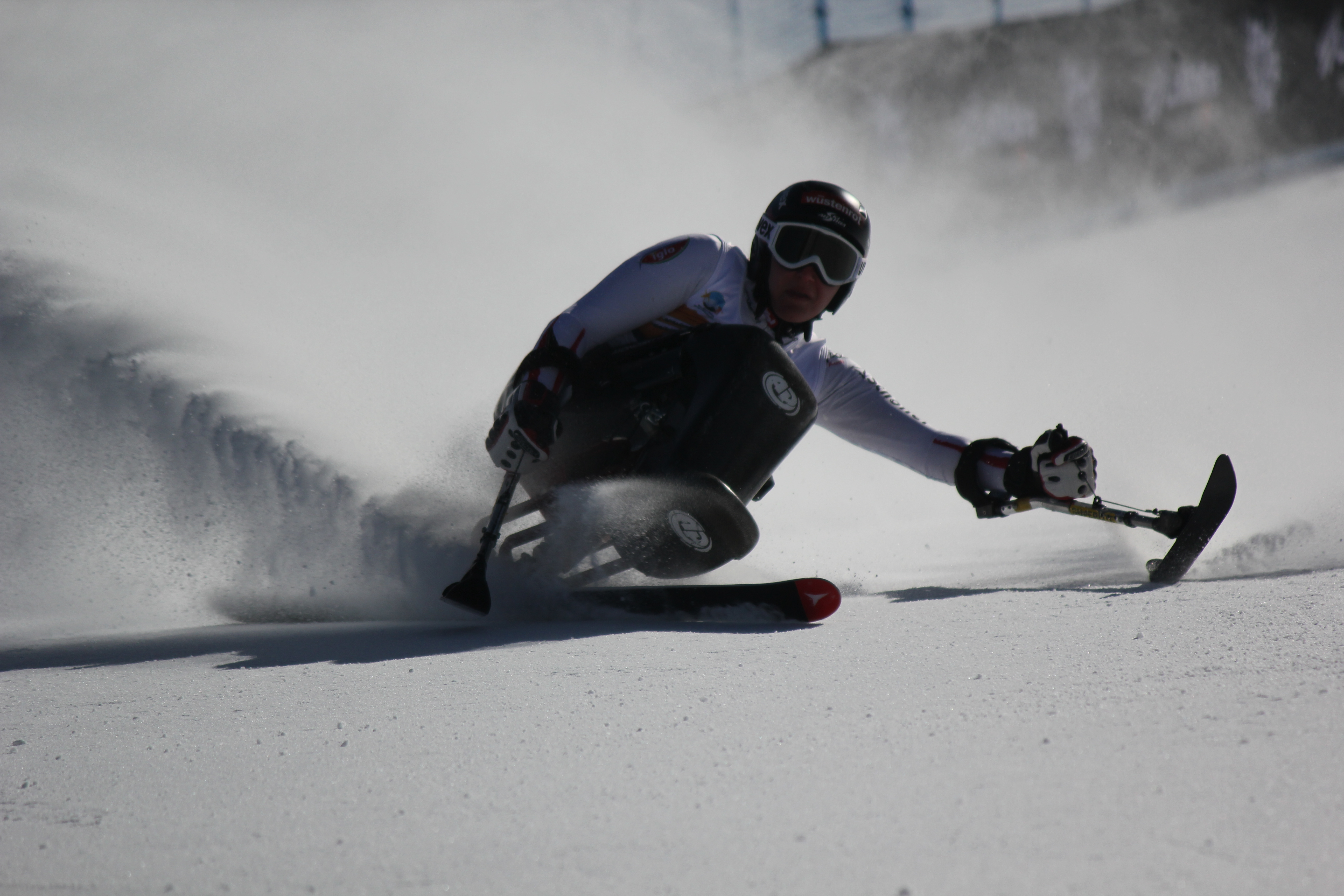 IPC Alpine World Championships in La Molina, Spain. Super-G event on Thursday. Women's sit skier Claudia Loesch of Austria